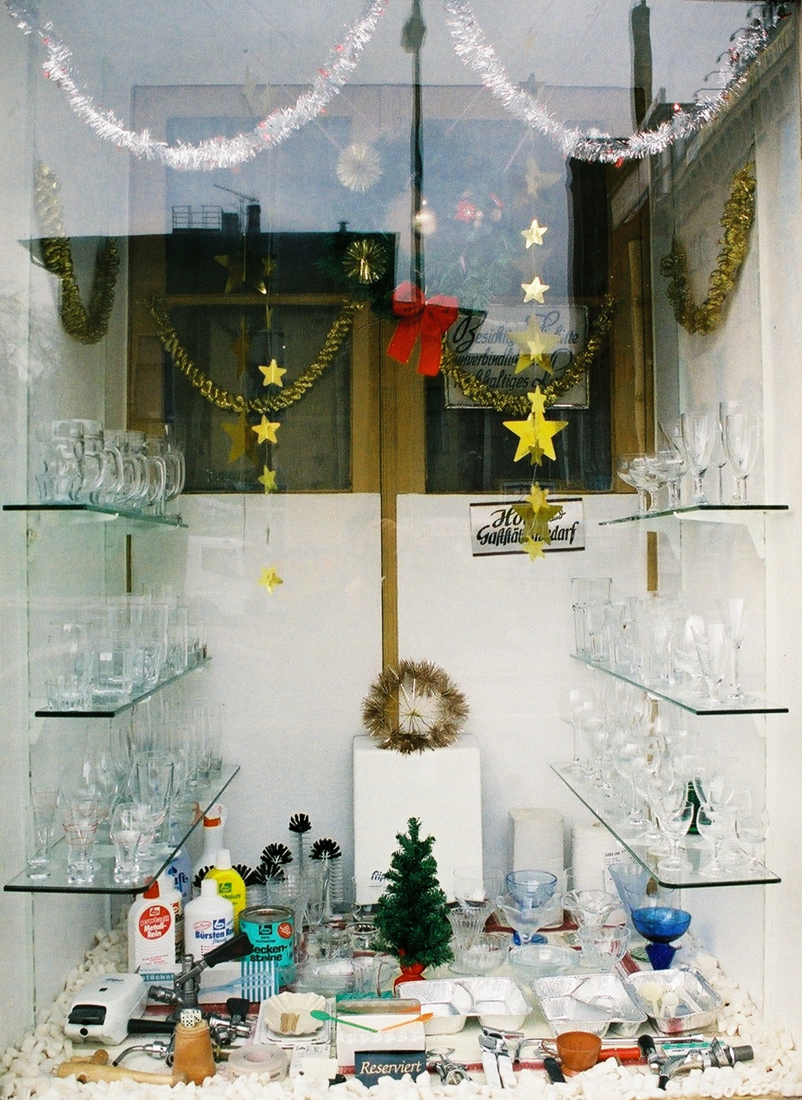 Berlin, Germany: restaurant equipment in a store window